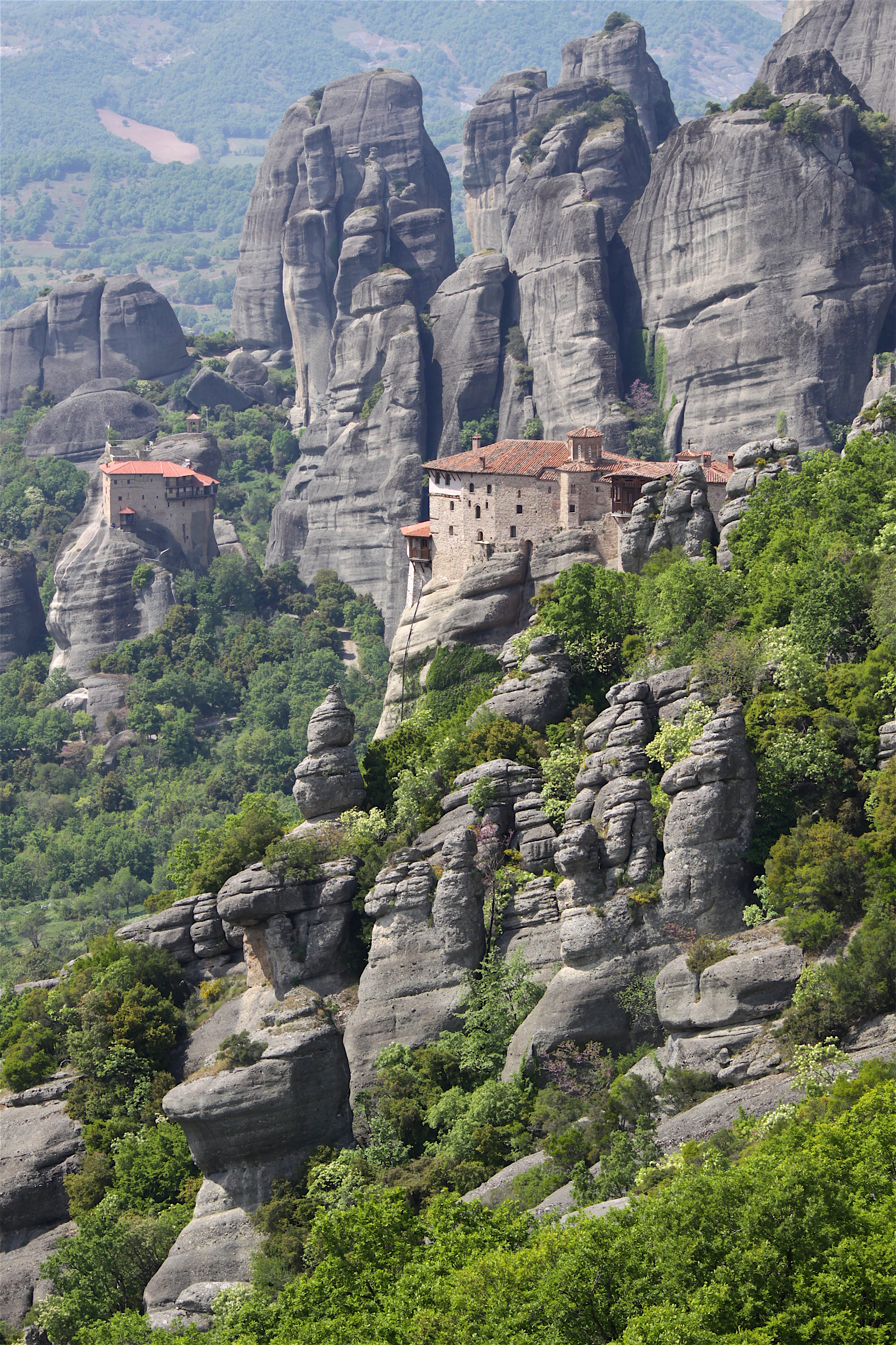 This is a photography of Natura 2000 protected area with ID GR1440003